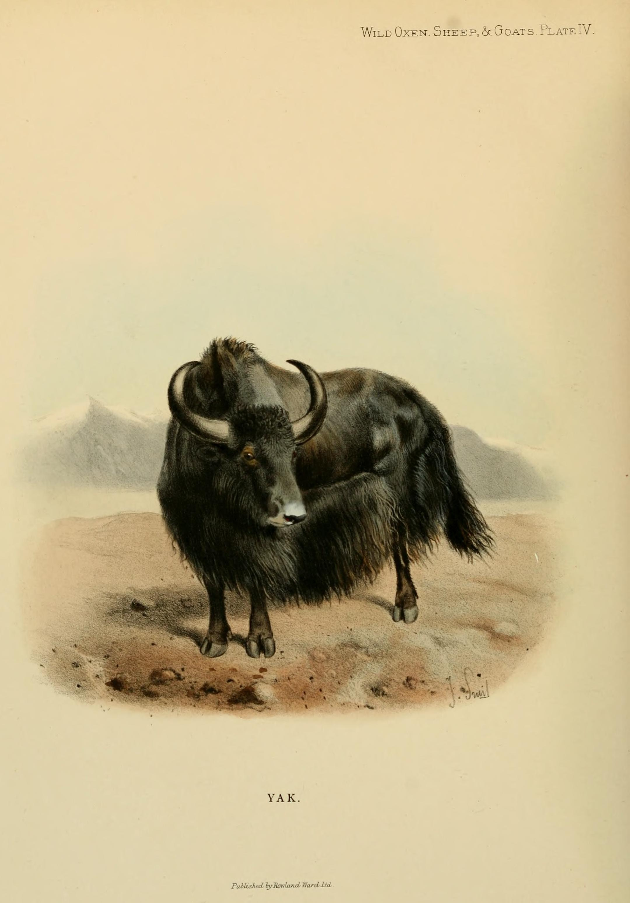 Wild Oxen, Sheep, & Goats. Plate IV. Yak. Published by Rowland Ward Ltd.